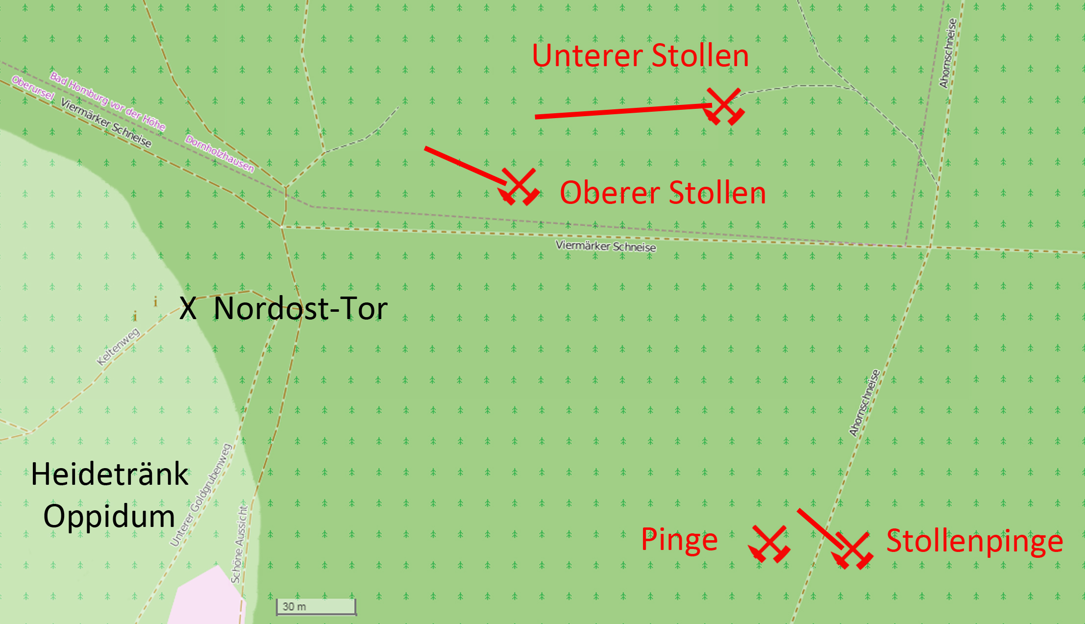 Mine Goldgrube near Bad Homburg. Position of adits and of nearby celtic Heidetränk-Oppidum. Mapdataː OpenStreetMap contributors. Mining dataː own work.